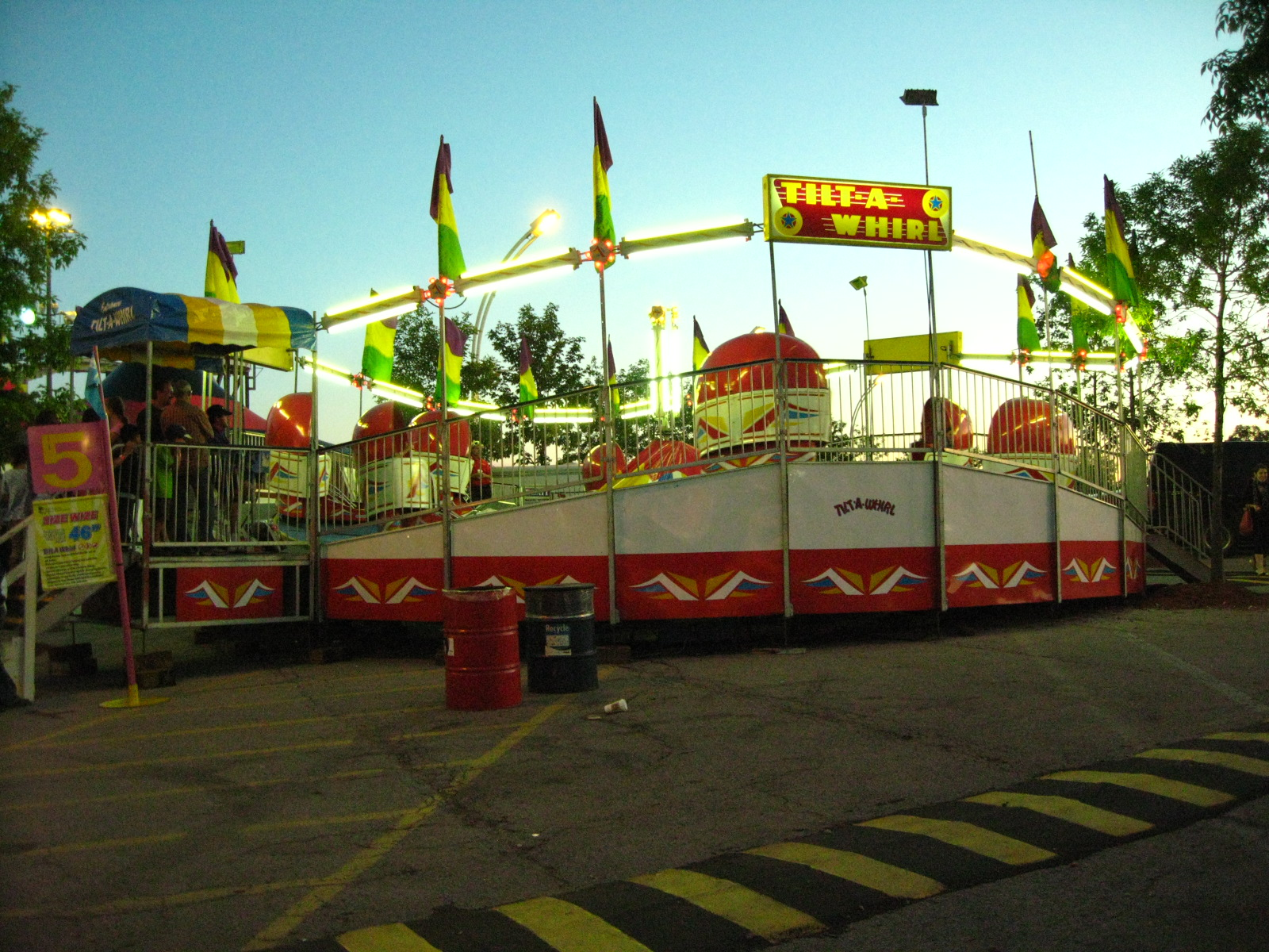 A Tilt-a-Whirl amusement ride at the Canadian National Exhibition in Toronto in 2008.